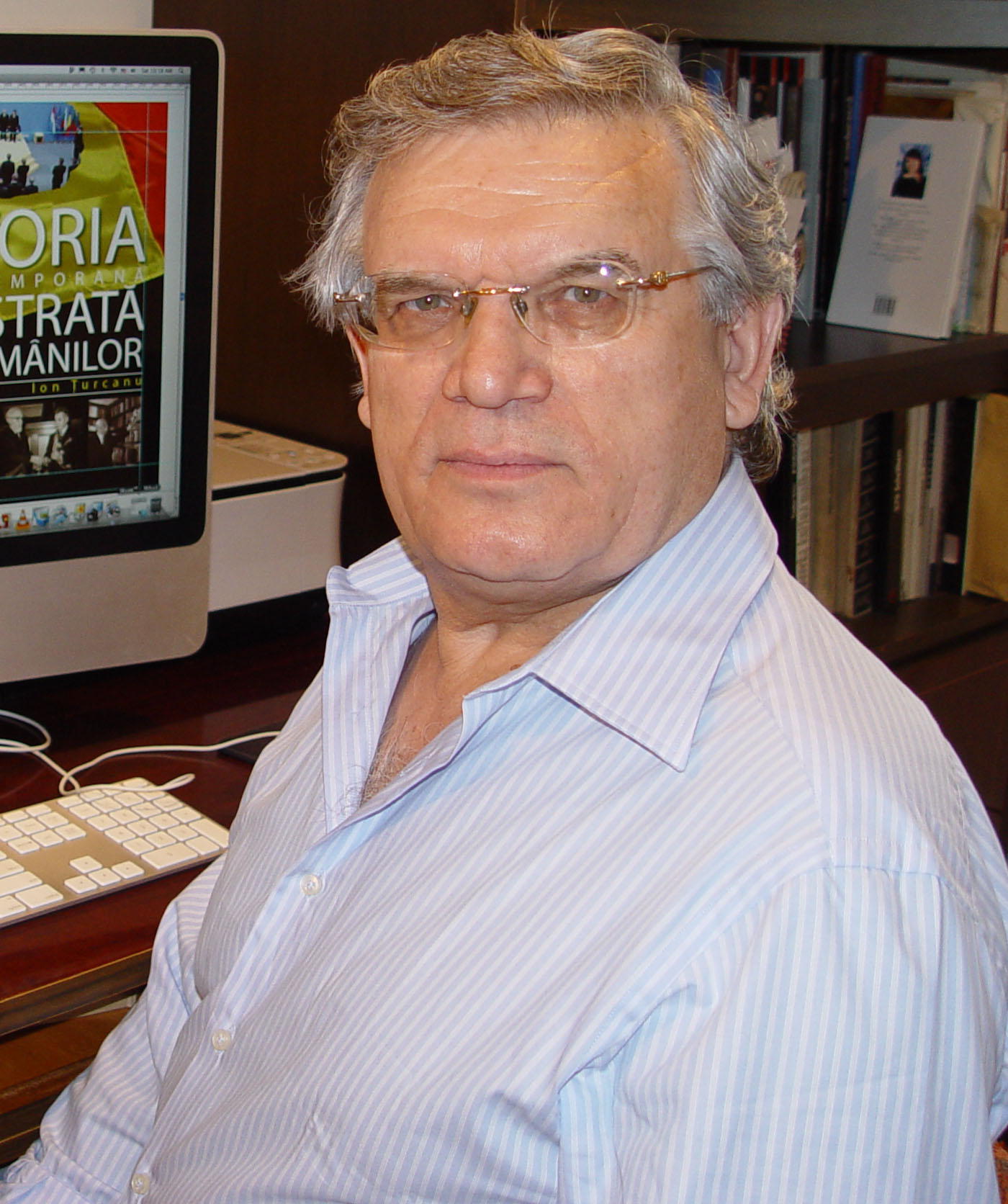 Ion Turcanu